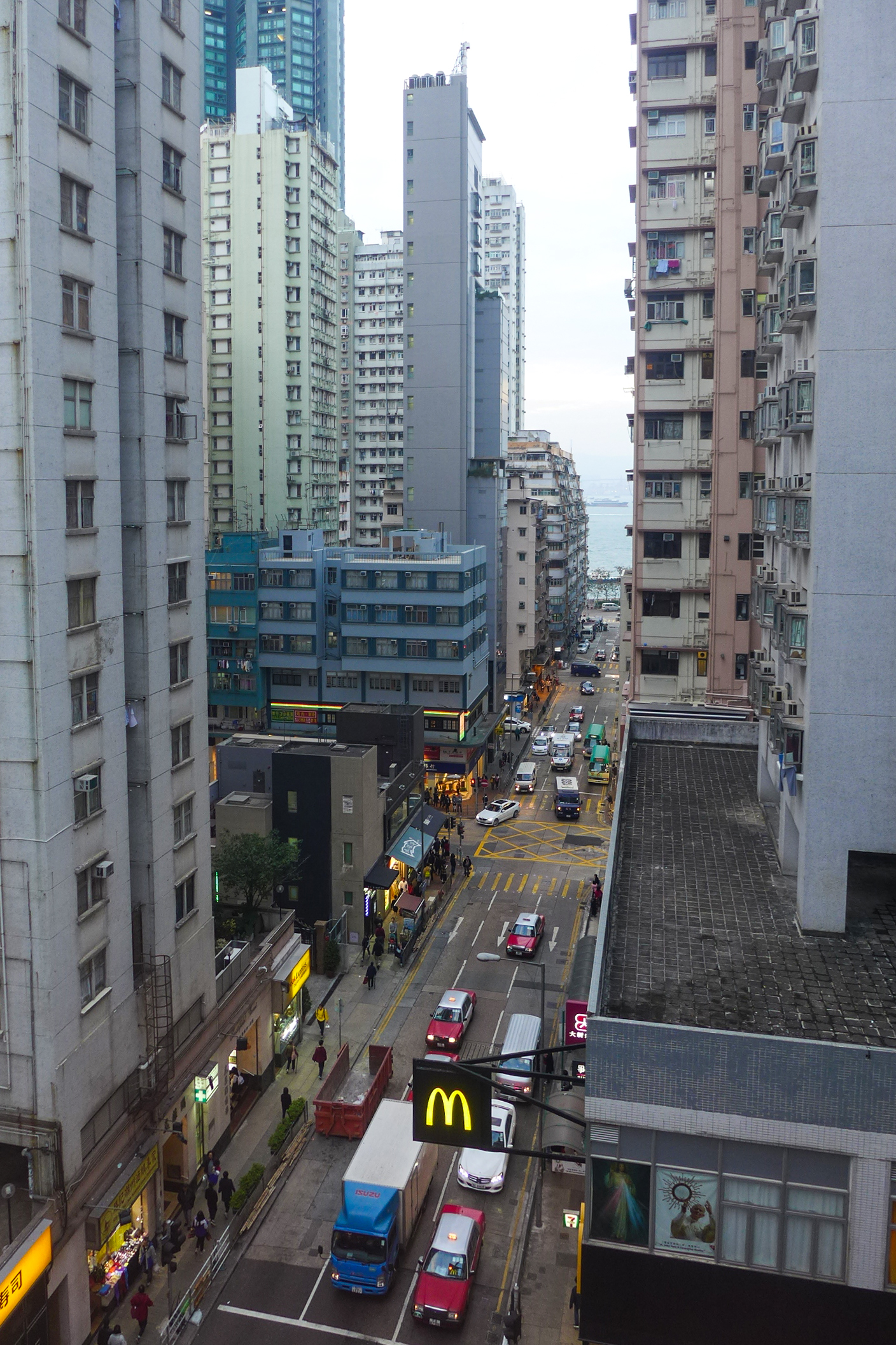 Smithfield Road